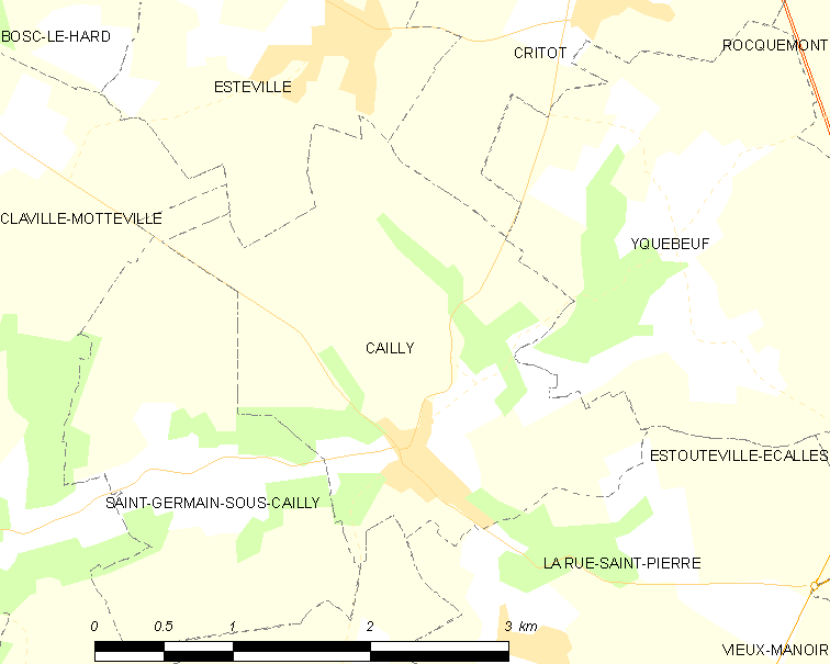 Map of French municipality Cailly